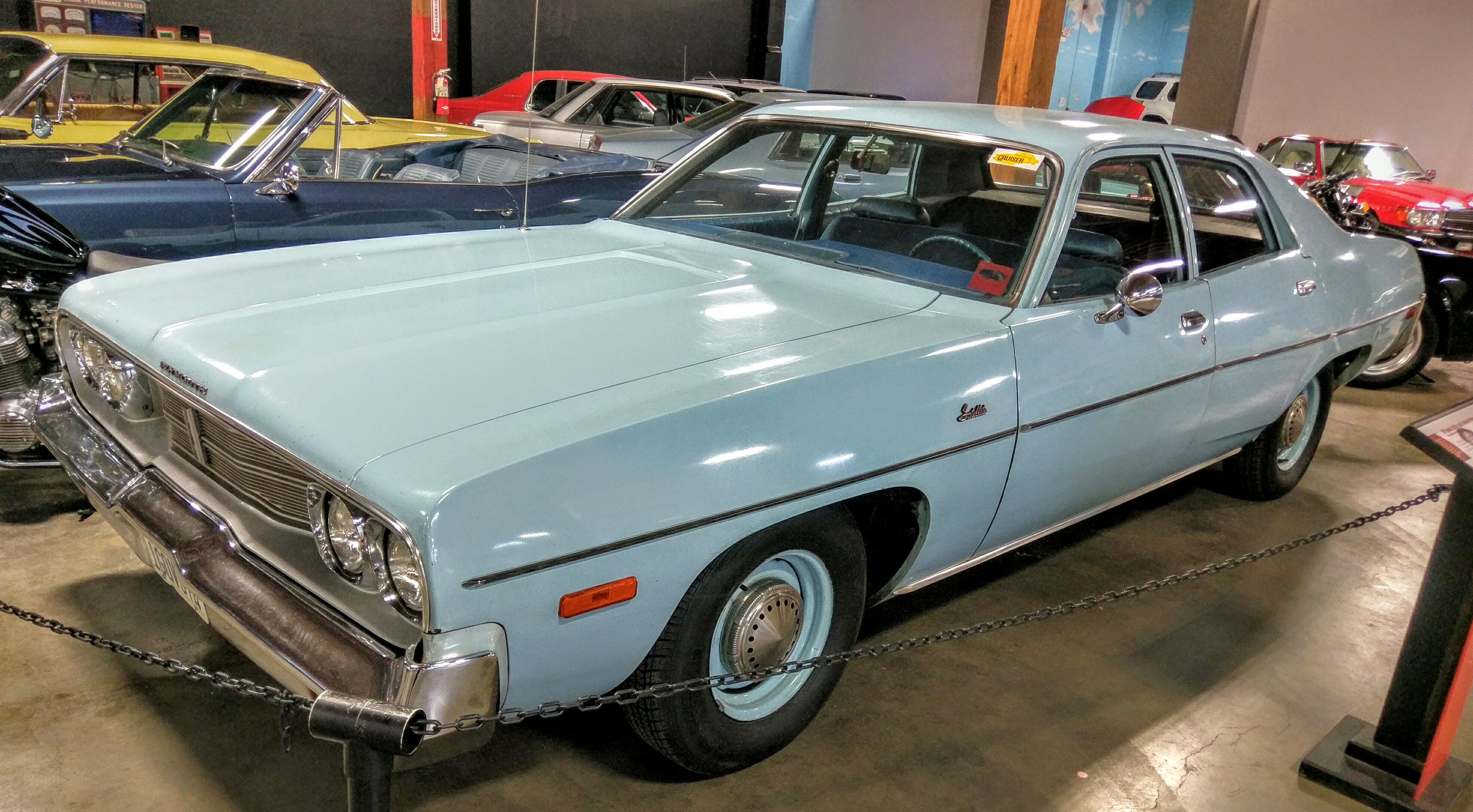 During his first term as California Governor, Jerry Brown selected two identical Plymouth Satellites from the state motor pool. They became symbols of his frugality. This one was based in Northern California, and another was based in the south. On display at the California Automobile Museum. Photo by Jim Heaphy.